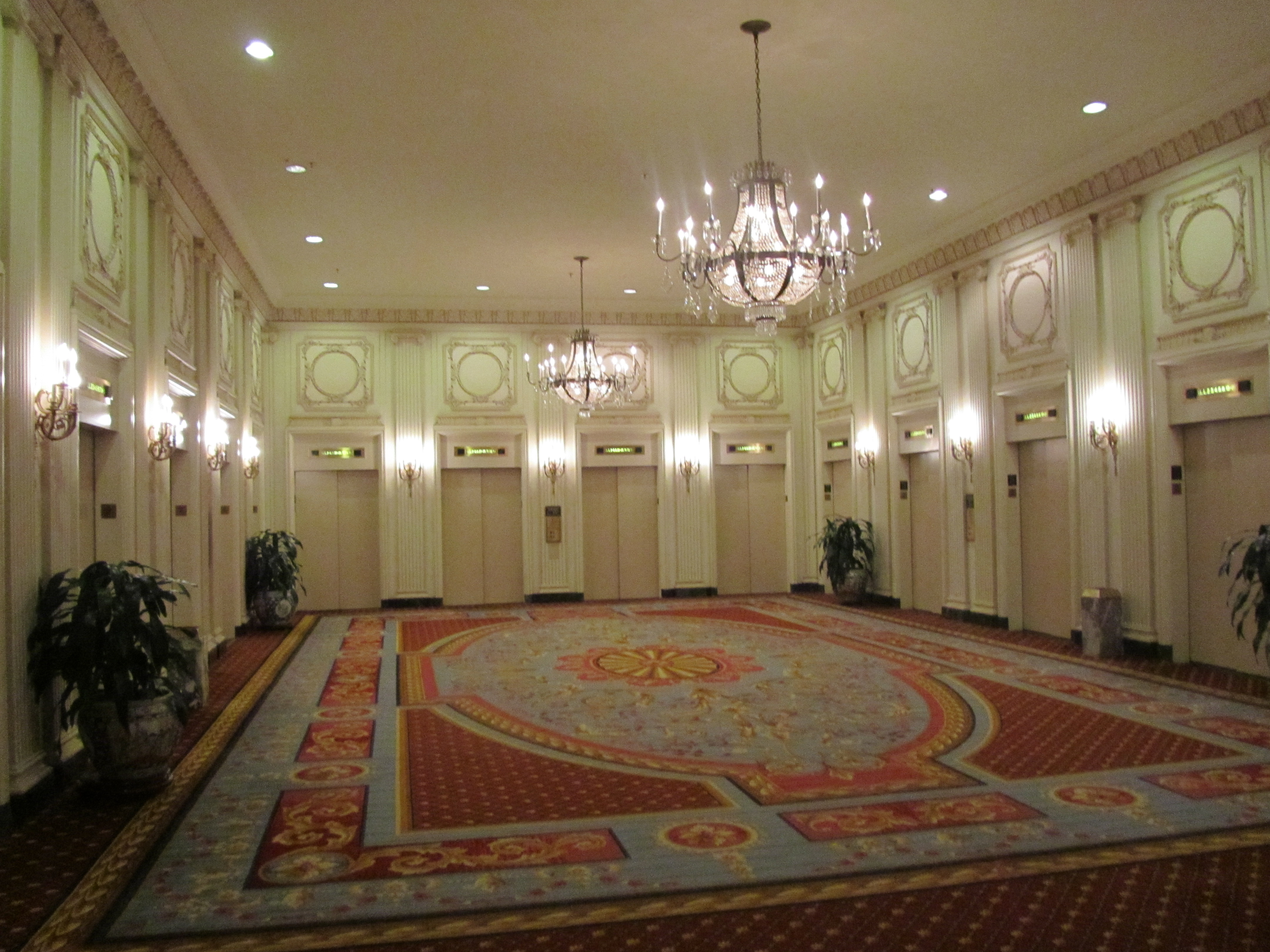 Hilton Hotel Chicago; elevator lobby